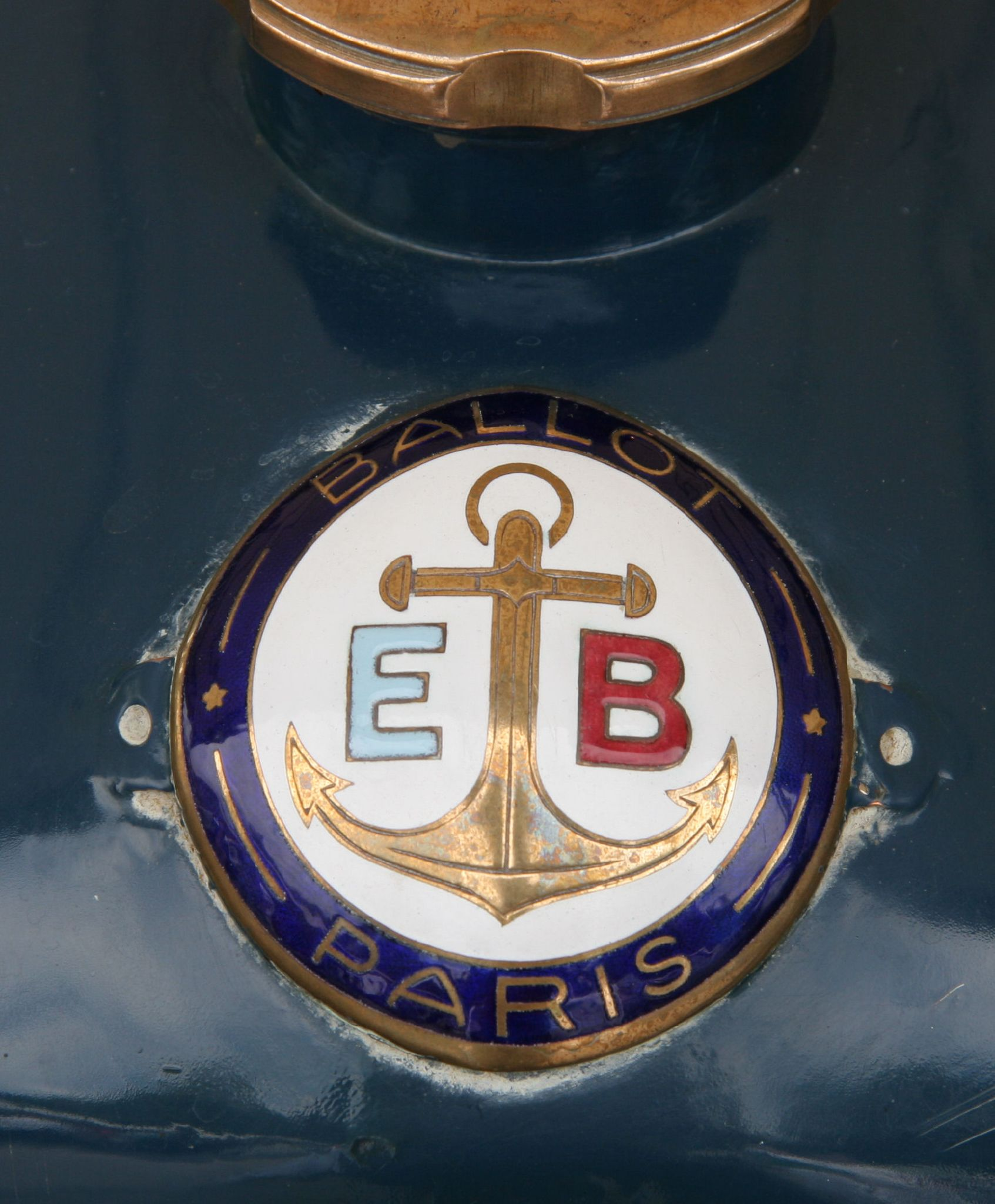 EB (Édouard Ballot) badge on 1920 Ballot Straight 8